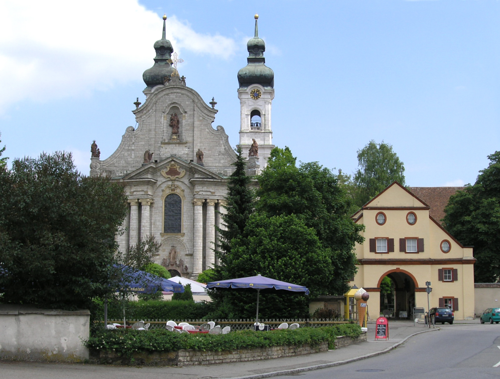 Monastery church of Zwiefalten/Germany